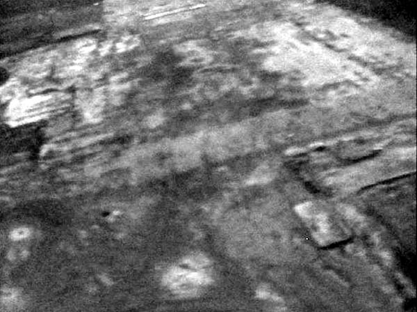 Near ultra-violet kite aerial photo of the former Etna Brickworks site, Armadale, West Lothian. CC-BY West Lothian Archaeology